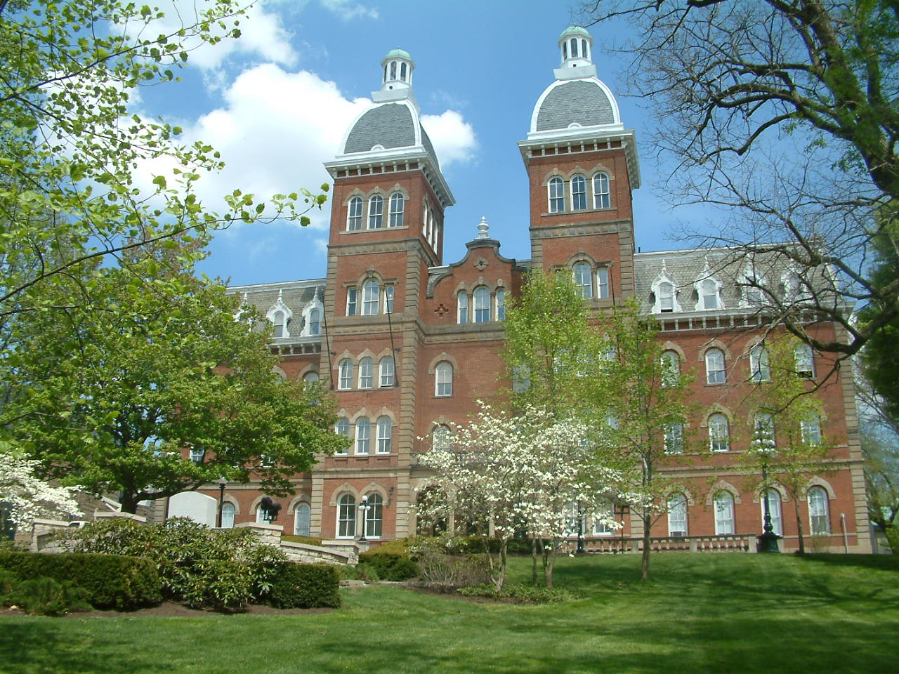 Old Main of Washington & Jefferson College, Washington, Pennsylvania, United States.